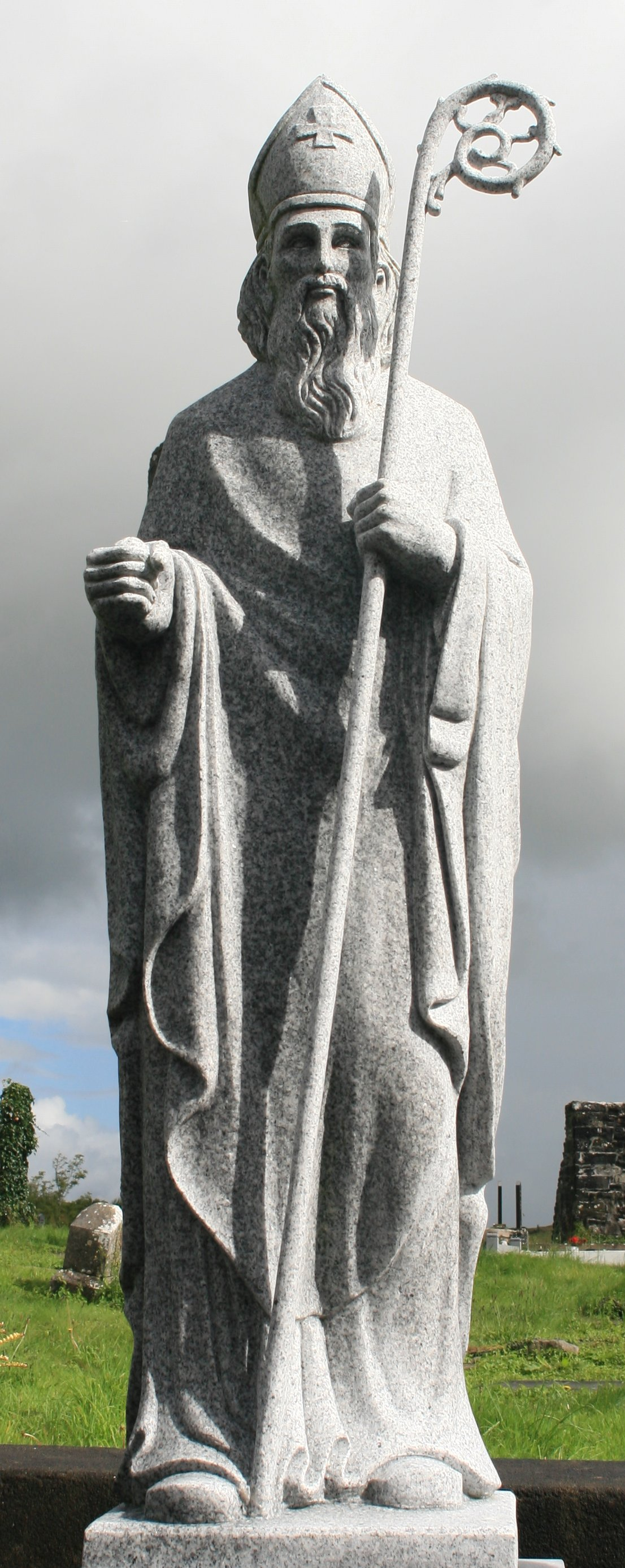 Aghagower, County Mayo, Ireland Statue of St. Patrick. Below this statue is an inscription which reads: This statue of St. Patrick (who founded a church here early in his Christian Mission) was unveiled and blessed by The Very Reverend Jackie Conroy P.P. on the 15th August 2006. It is the final phase of Aghagower's Millennium Celebrations. It was from here that St. Patrick and some members of his household accompanied by St. Benan of Kilbannon departed on Shrove Saturday in the year 441 to spend 40 days of Lent on Cruaghan Aigle (now Croagh Patrick) from whence they returned on Holy Saturday to celebrate Easter with Bishop Sinach in Aghagower. The name of the sculptor is not named at the statue.